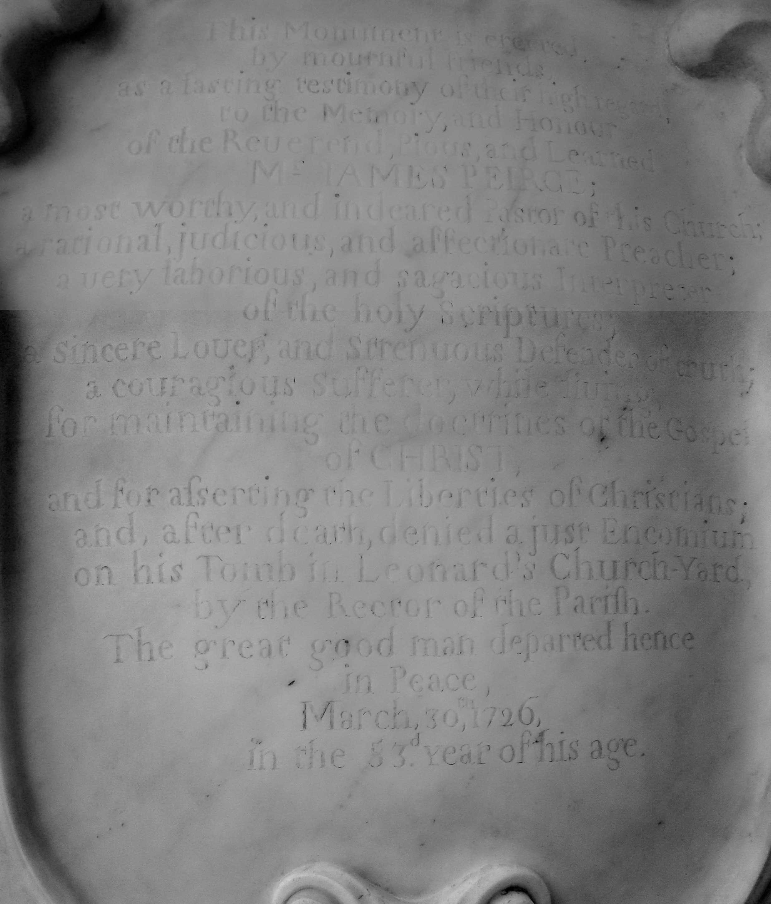 Photographed in modern George's Meeting Hoise (now a Wetherspoons pub), Exeter, 10 Jan 2016